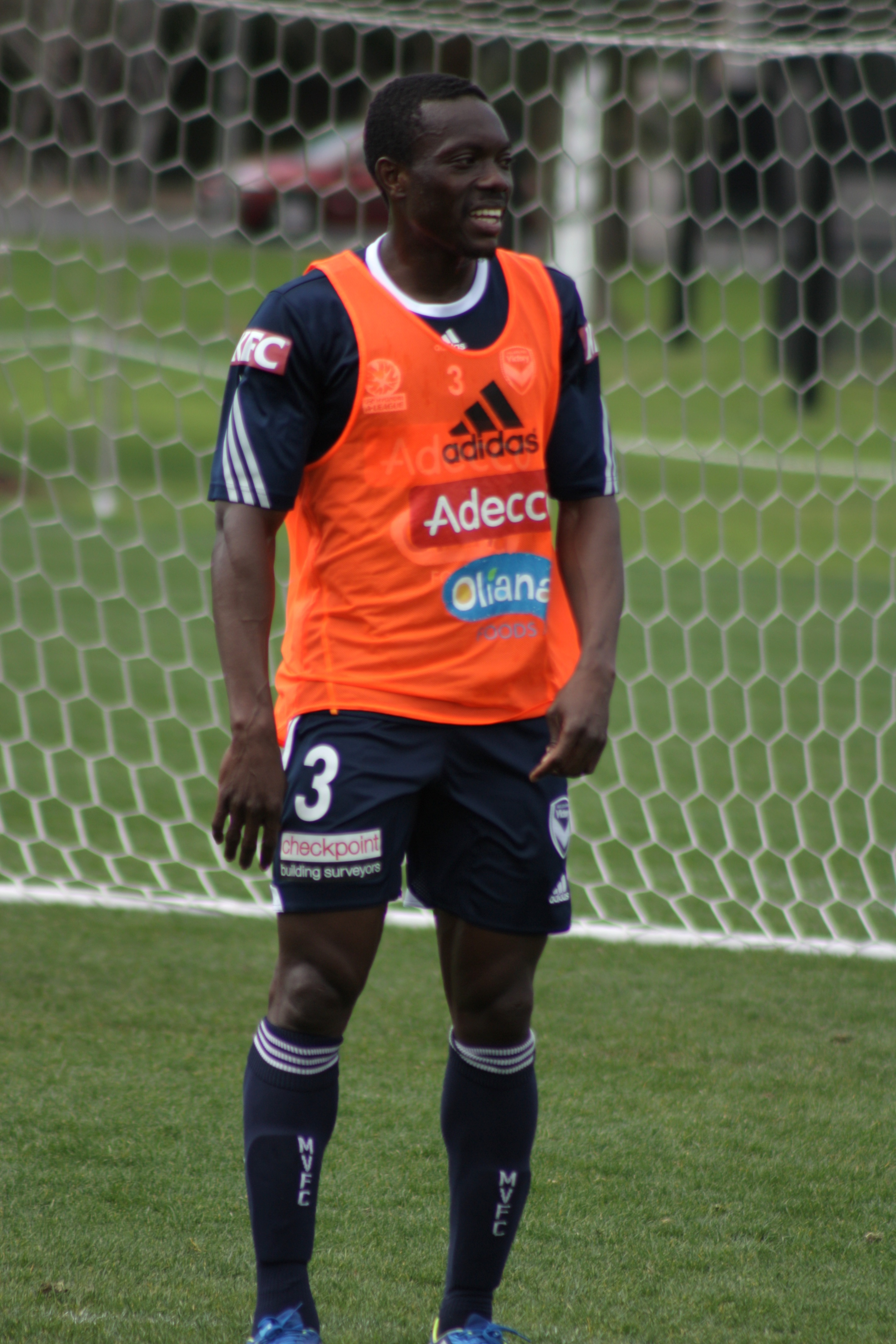 Adama Traorè training for Melbourne Victory at Gosches Paddock